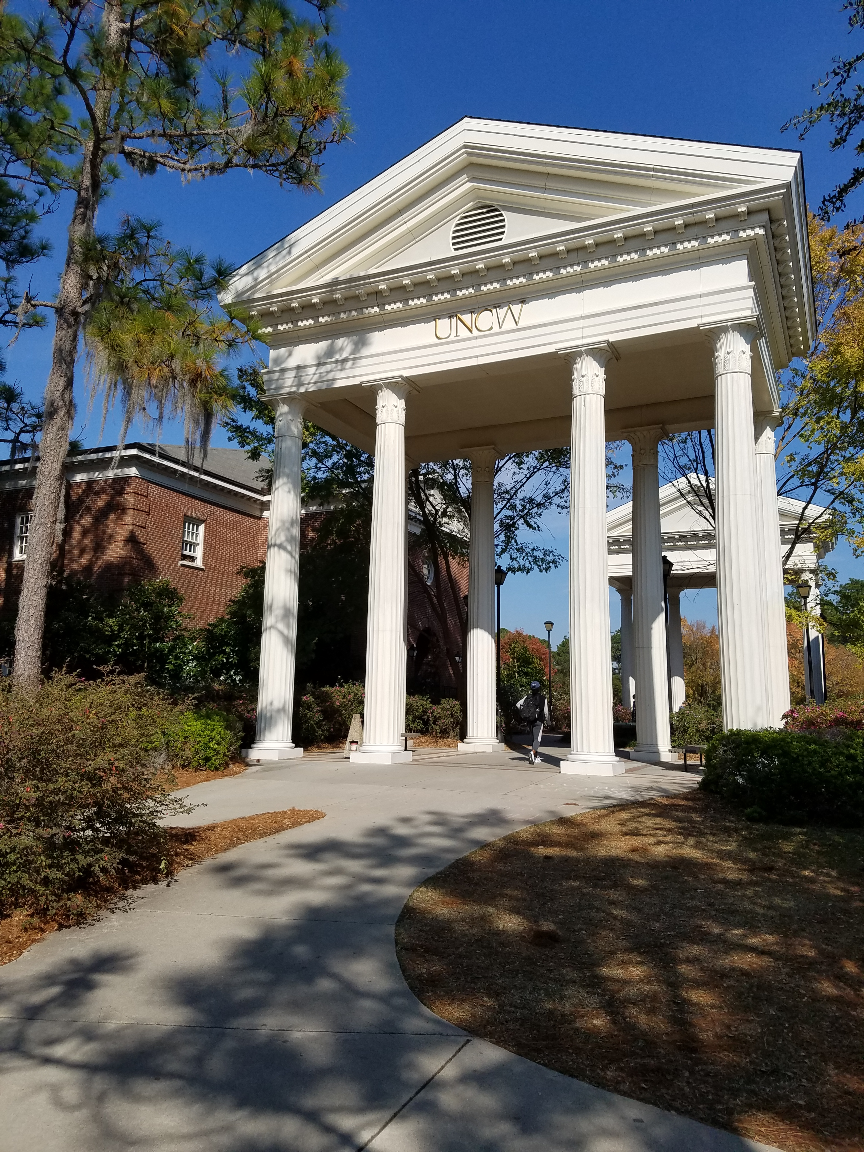 Iconic arches on the campus of University of North Carolina Wilmington (UNCW) in Wilmington, North Carolina